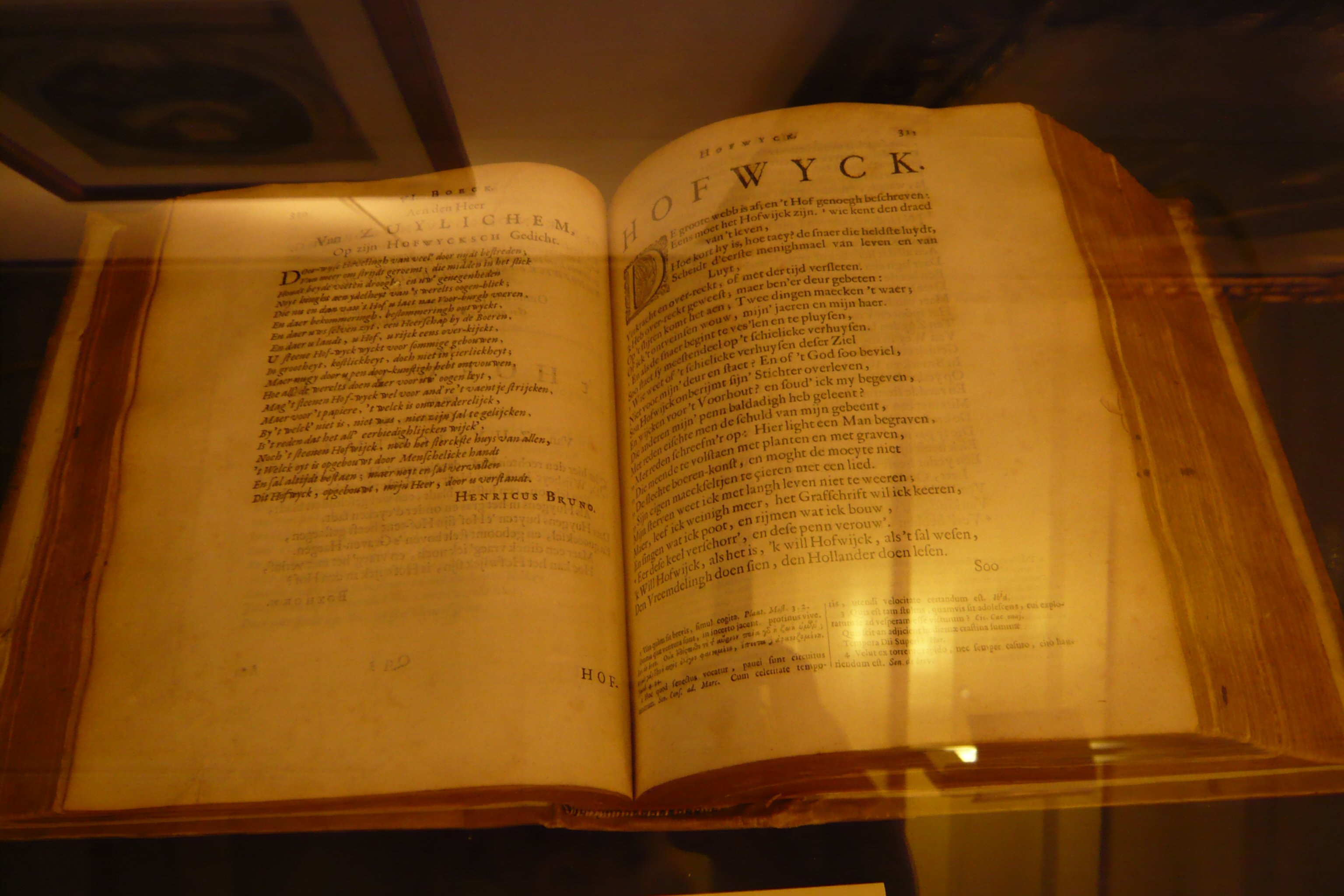 Picture of Huygens' book with Hofwijck poem by Huygens on display at Hofwijck Museum.